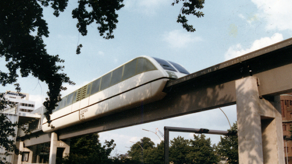 German Maglev prototype (MBB) in Hamburg.